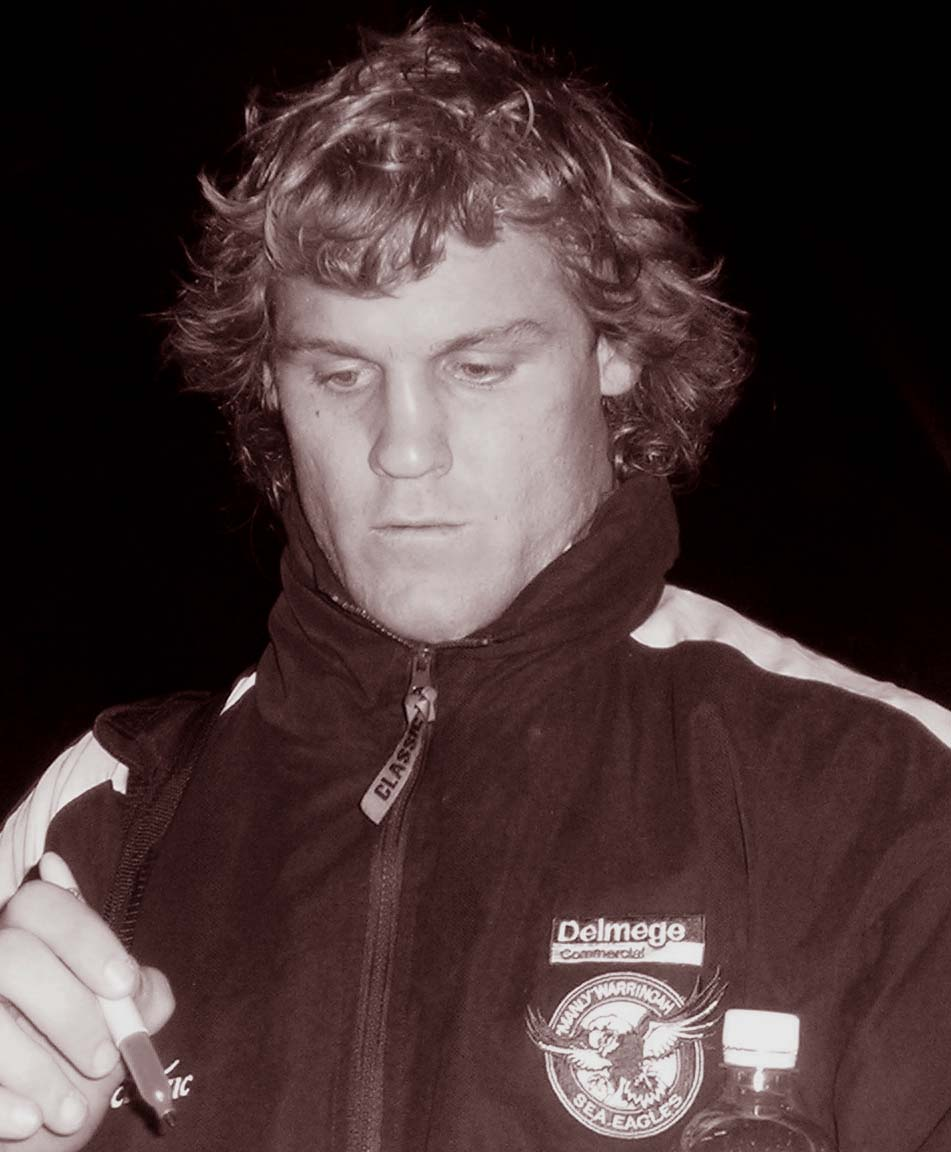 Manly Second row Luke Williamson - Parramatta Stadium 2005